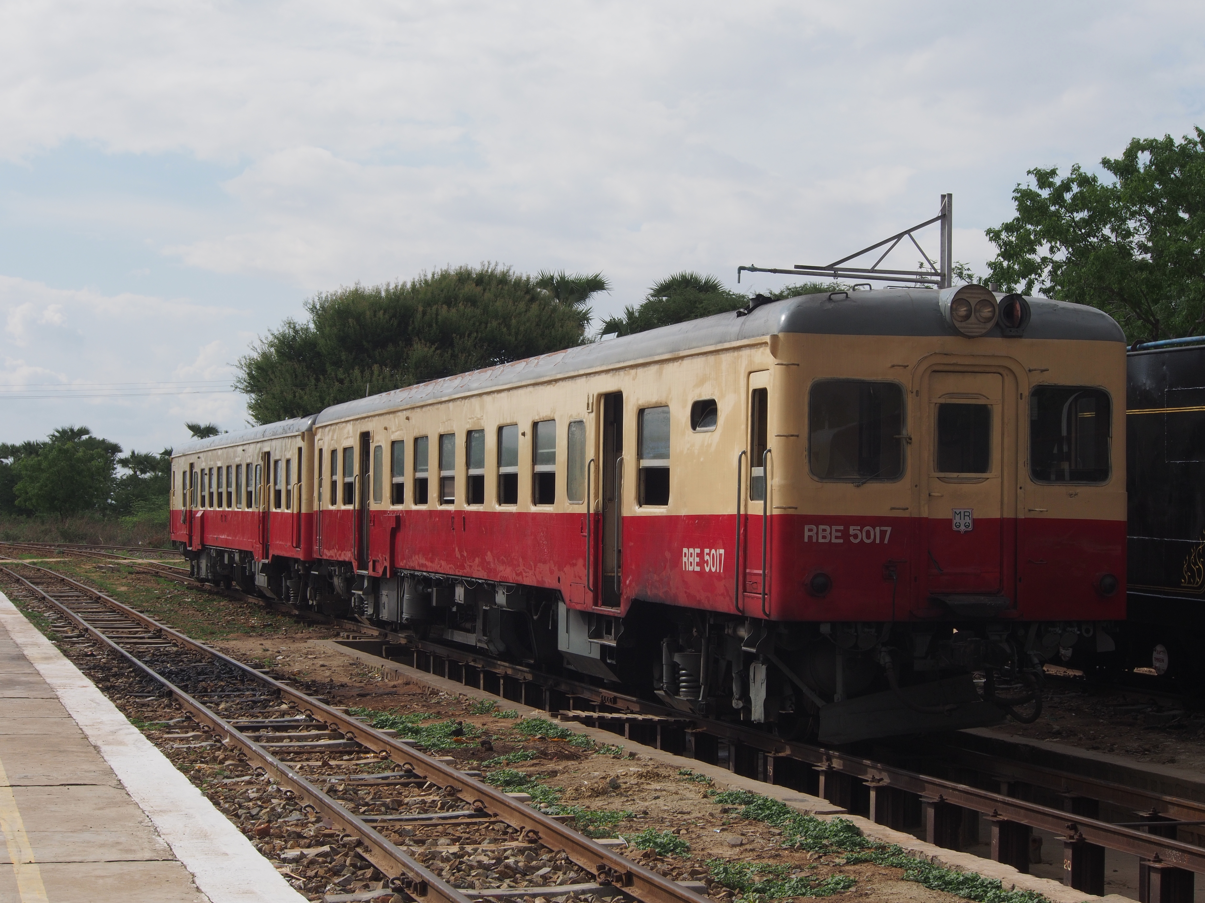 Myanmar RBE5017 DMU, formerly JR East Kiha 52 154